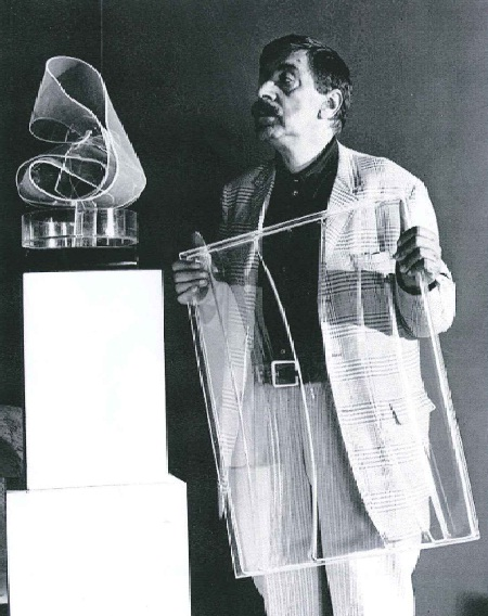 Sante Monachesi, Artist's portrait.